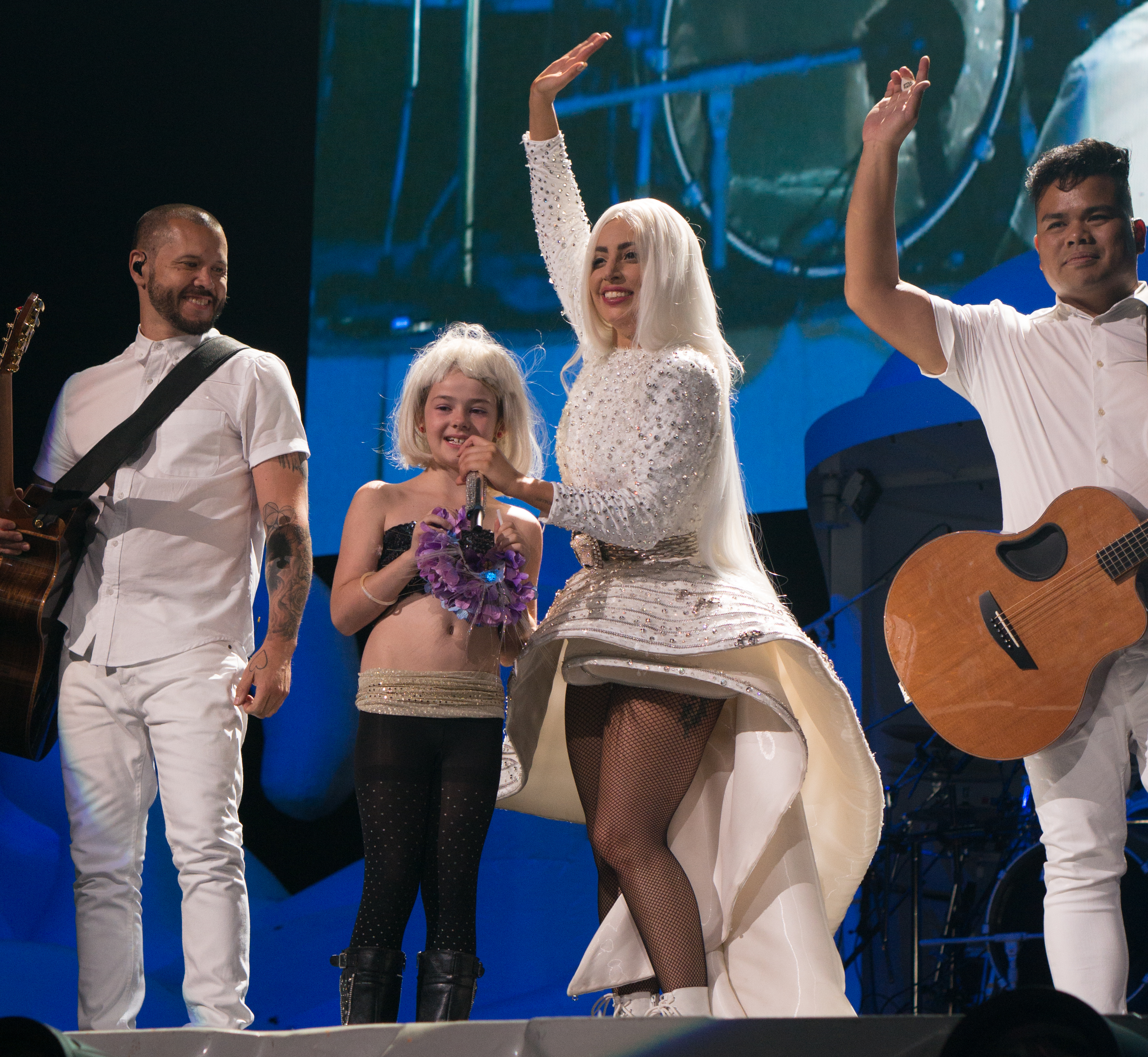 Lady Gaga performing "Gypsy" at the ArtRave: The Artpop Ball tour.